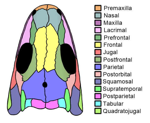 A diagram of the skull of Westlothiana lizzae, a Carboniferous tetrapod. The skull is seen in dorsal view, and based on a skull reconstruction published by Smithson et al. (1994). Individual bones are colorized based on by Smokeybjb.